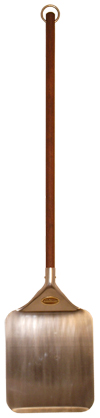 Pizza Shovel also known as a Pizza Peel - Wood Fired Oven Tool.